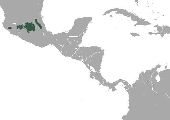 Central Mexican Broad-clawed Shrew (Cryptotis alticola) range